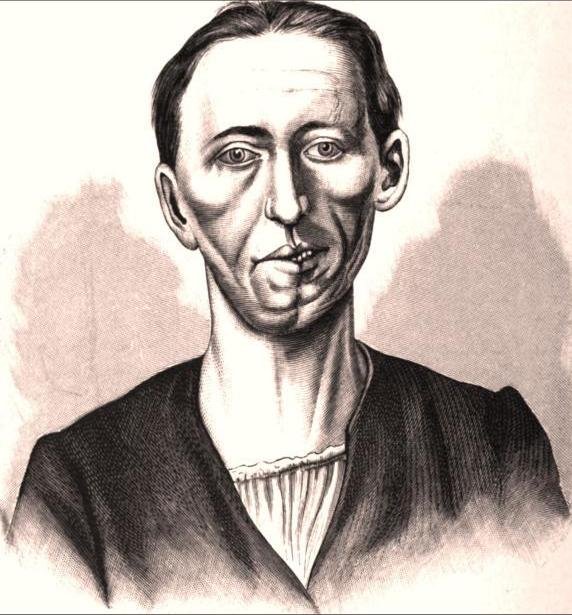 First page of the book